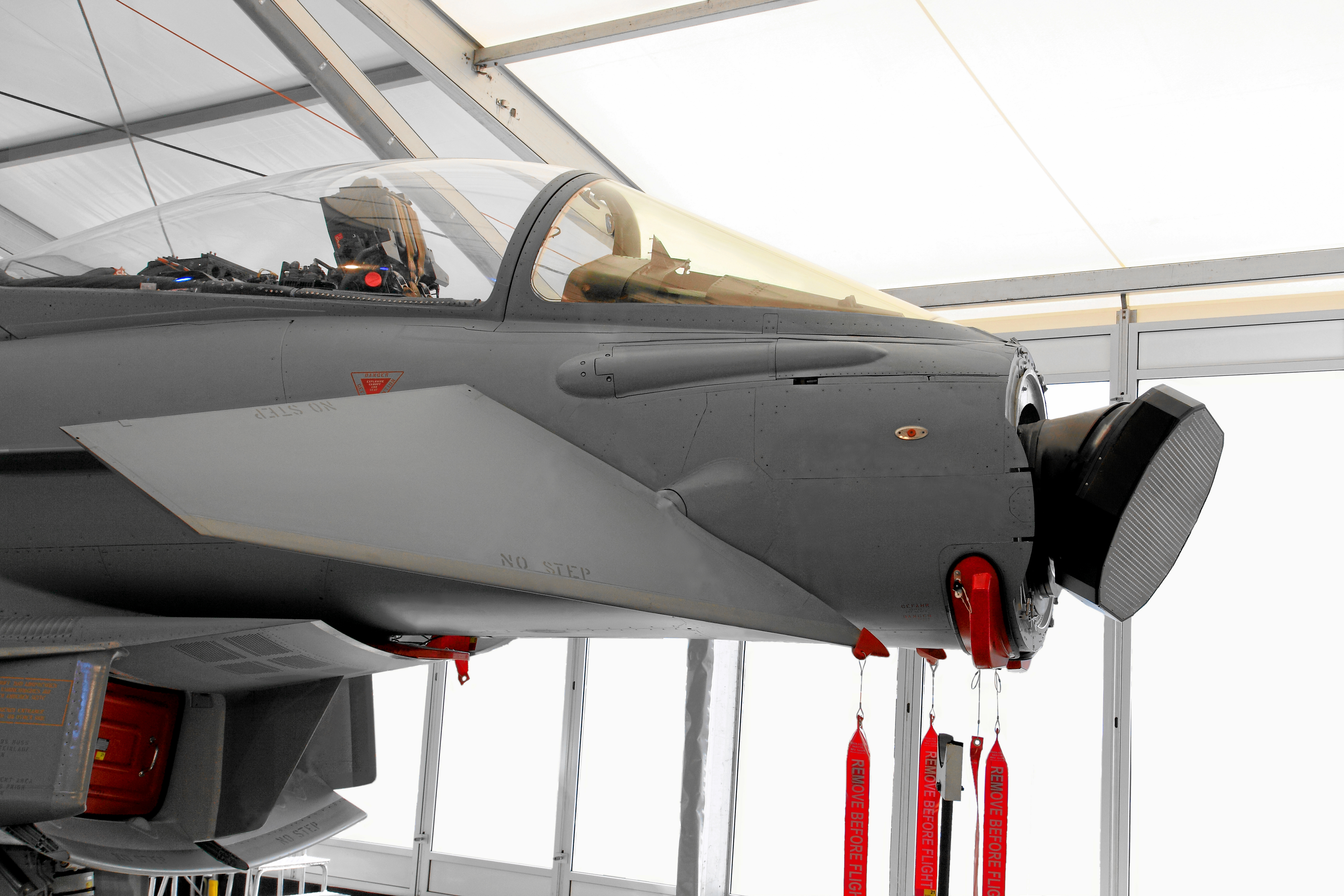 Euro Fighter Typhoon without nose, allows the view of the antenna of the onboard radar "EuroRADAR CAPTOR". ILA Berlin Air Show 2012